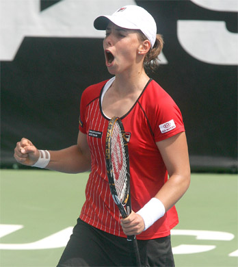 Marina Erakovic at the en:2009 ASB Classic. Note: Photo my creation